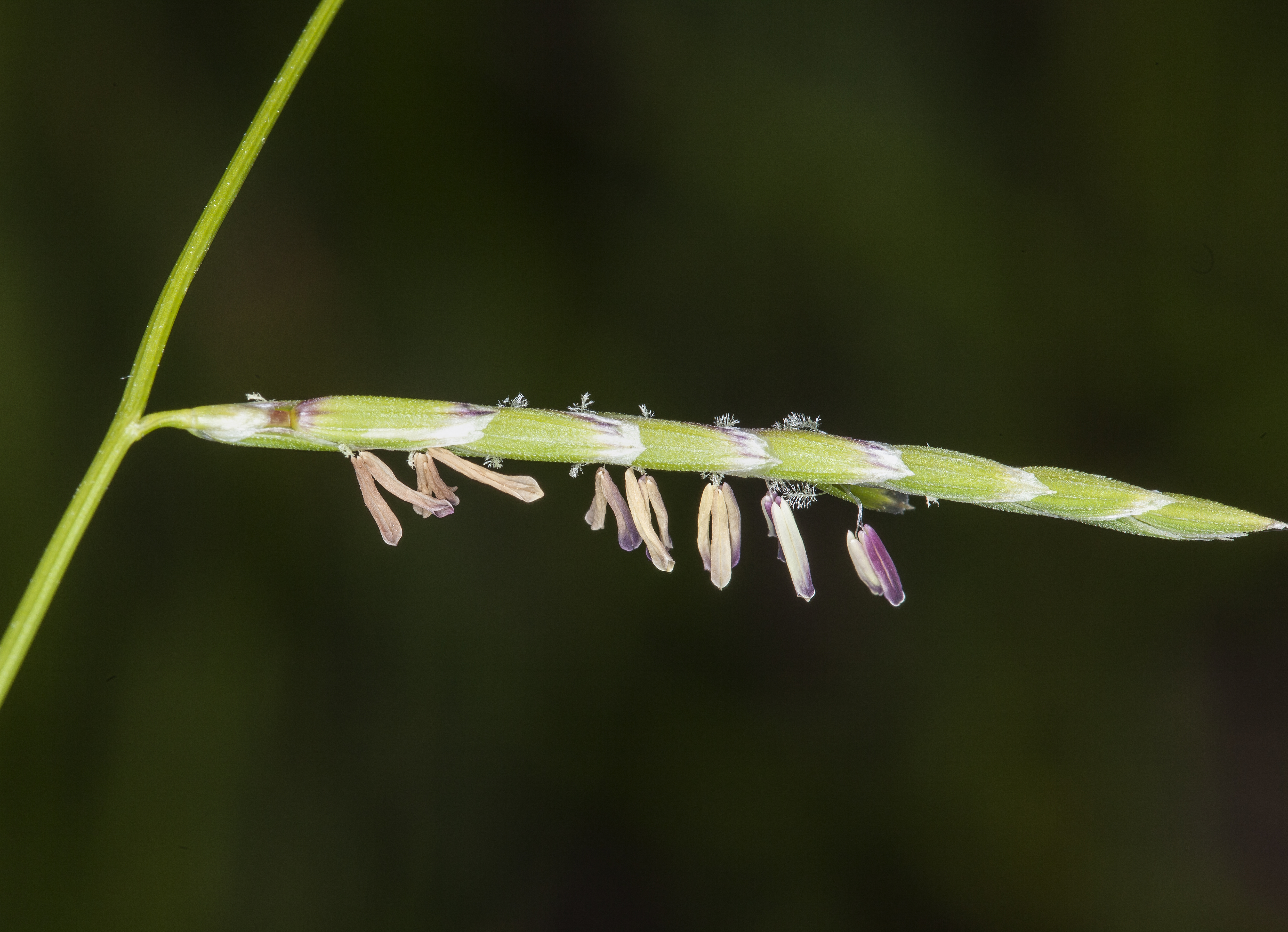 Pleuropogon californicus var. davyi (annual semaphoregrass). Photographed in an open damp meadow in Little Lake Valley, North of Willits, Mendocino County California. Note that awns are essentially laking at the lemma tips in this variety.